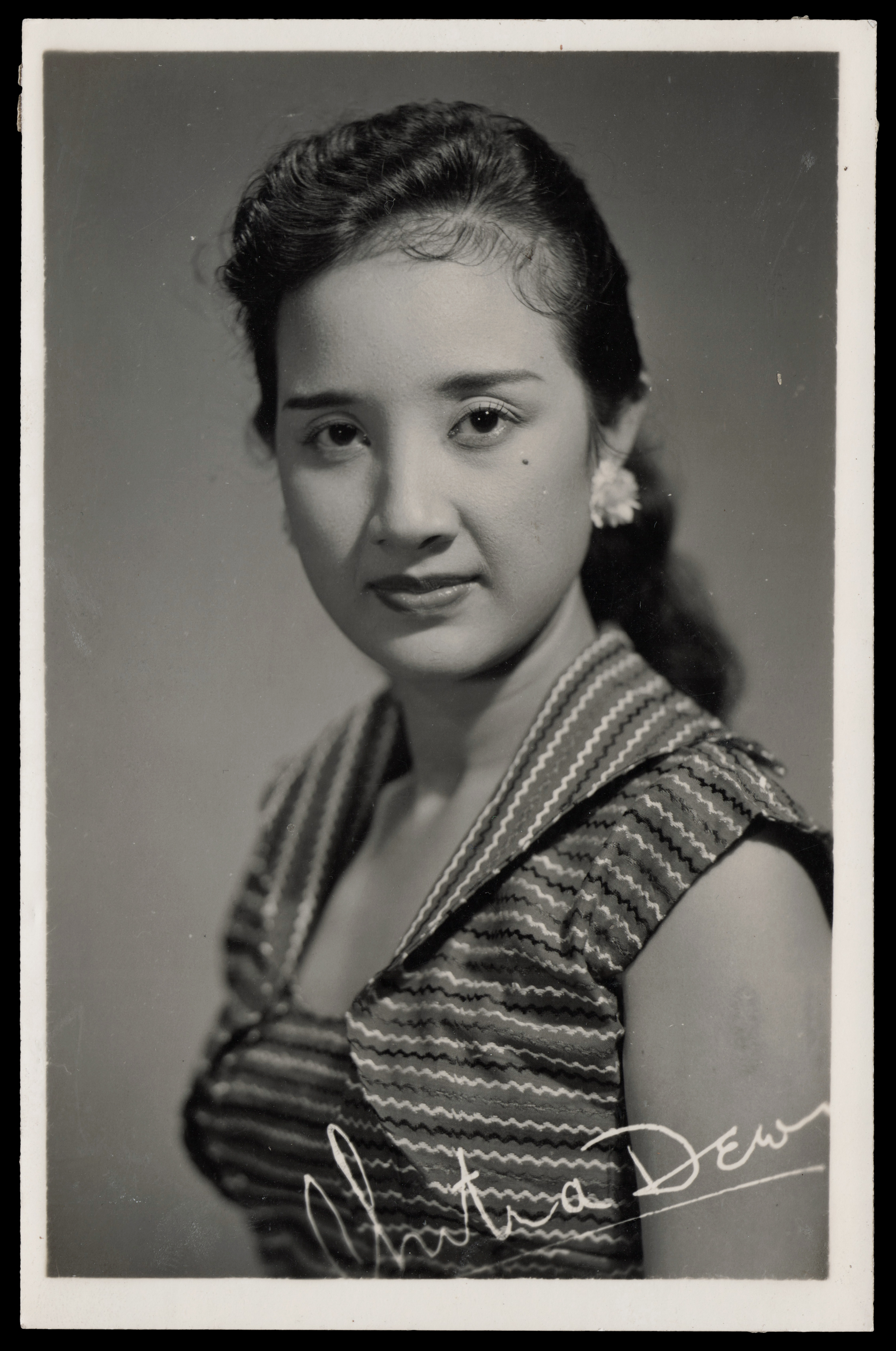 Indonesian actress Chitra Dewi in a glamour shot issued as a postcard by Djakartawood, Semarang